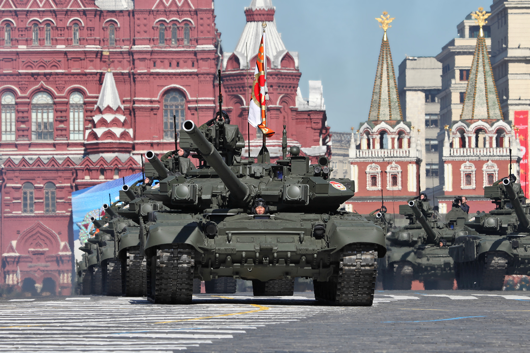 T-90A main battle tank